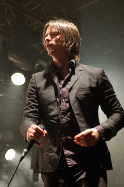 Janove Ottesen, Kaizers Orchestra, RaumaRock 2008